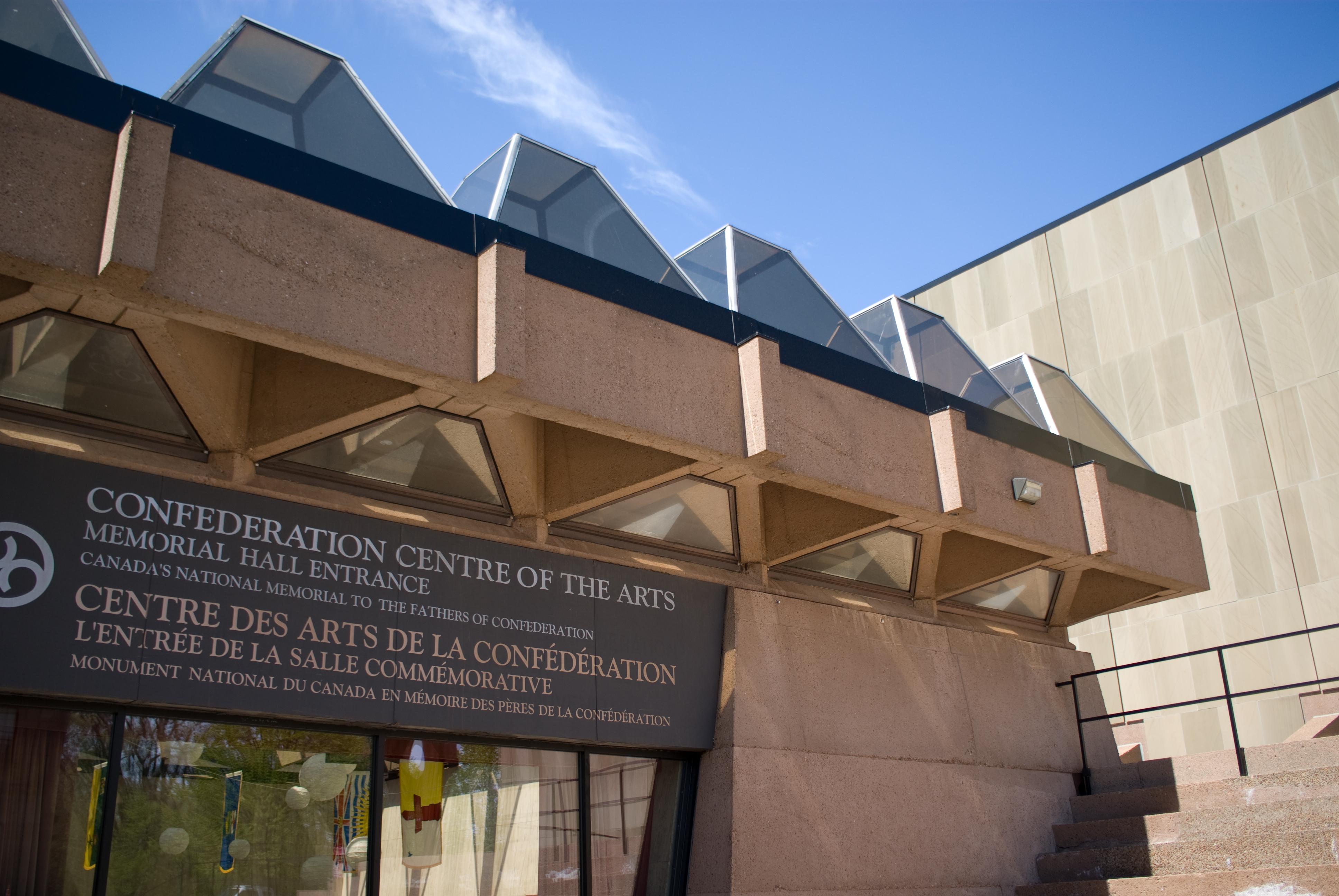 Built between 1960-64, the Confederation Centre of the Arts is an arts centre containing a theatre, an art gallery, and a library. Although the Confederation Centre of the Arts was built as a national memorial to the Fathers of Confederation who met at the Charlottetown Conference, the Centre is not itself dedicated to the Conference or to Confederation in general. Instead, the art gallery has a permanent collection of Canadian art and also has exhibit space for traveling shows, while the theatre hosts traveling Broadway musicals and the annual "Anne of Green Gables - The Musical."